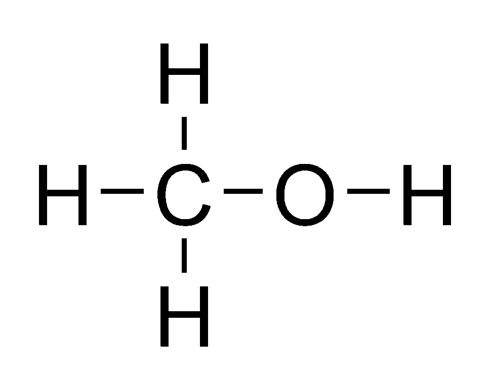 Flat connectivity structure of methanol